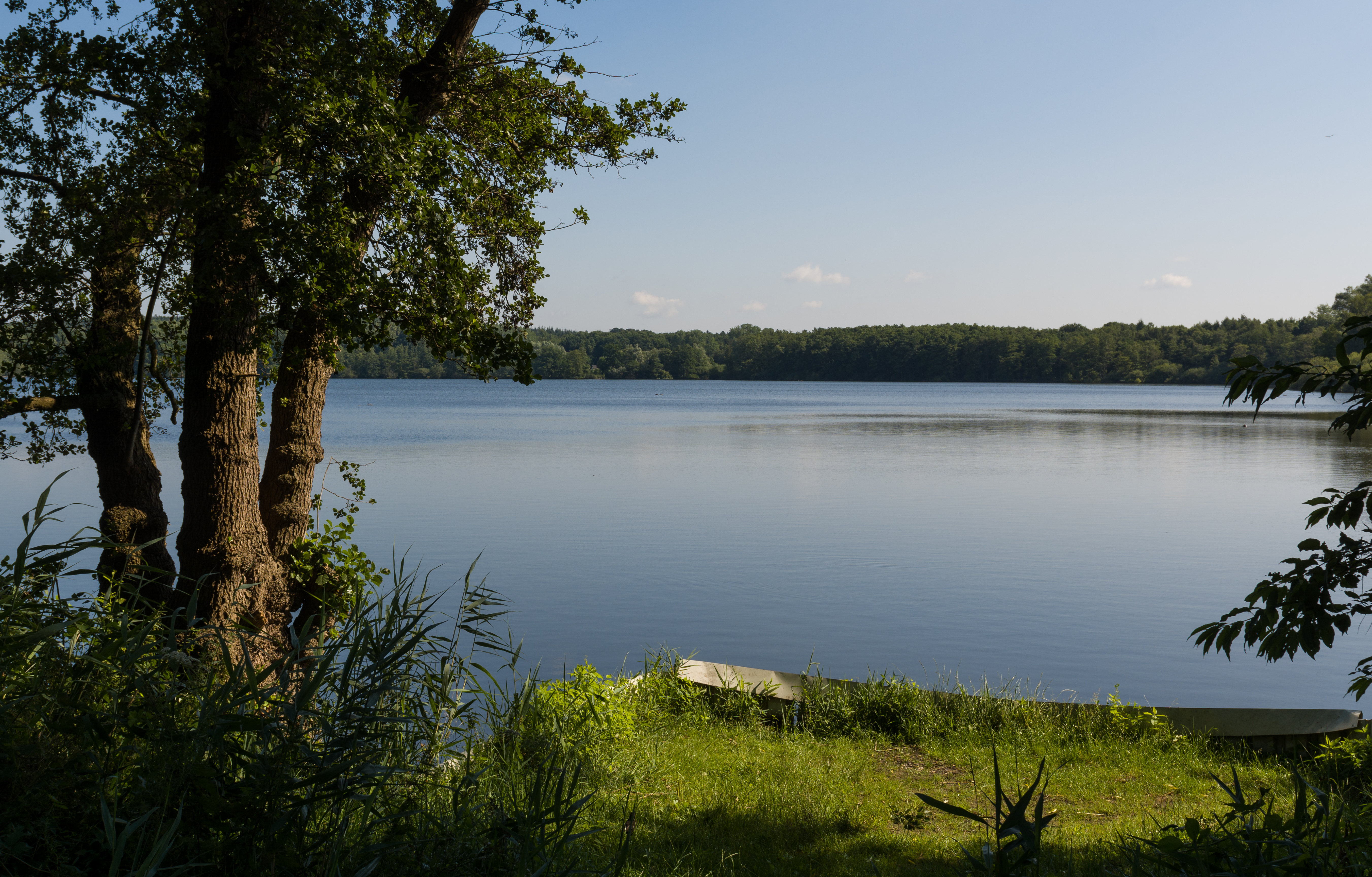 Glabbacher Bruch, one of the Krickenbecker Seen, lakes in Nettetal.